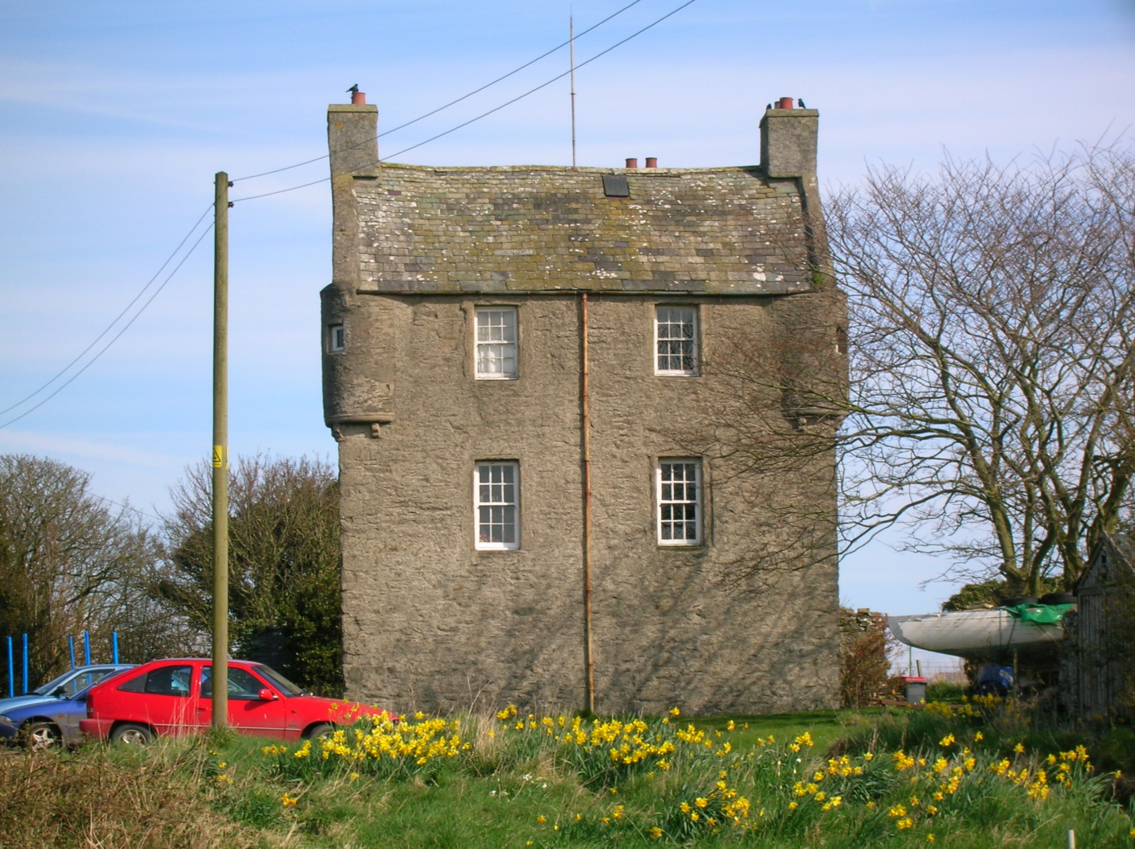 The Isle of Whithorn Castle, The Machars, Galloway, Scotland